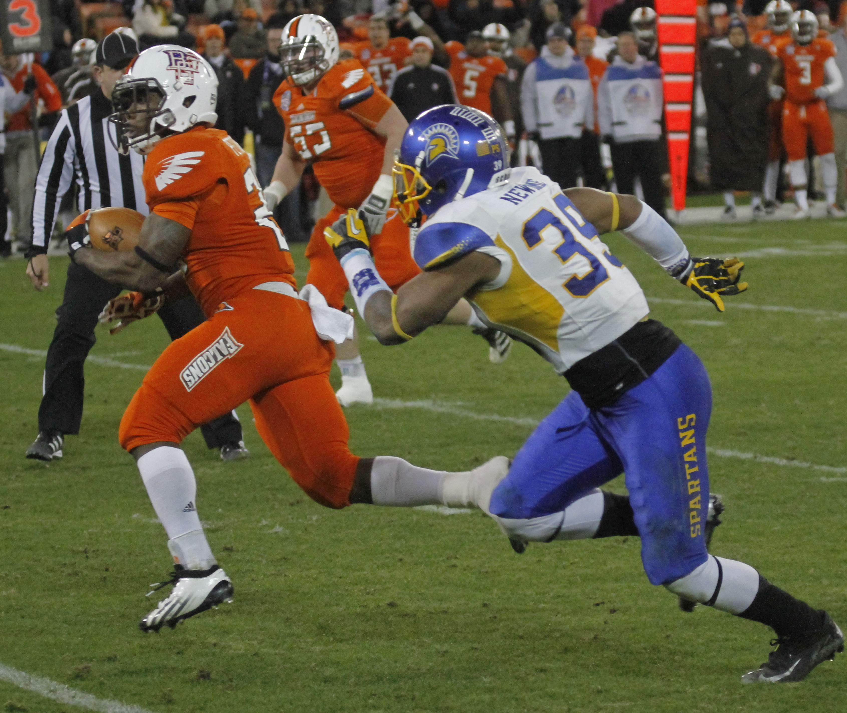 Bowling Green running back John Pettigrew carries the ball during the 2012 Military Bowl. San Jose State safety Cullen Newsome pursues Pettigrew.